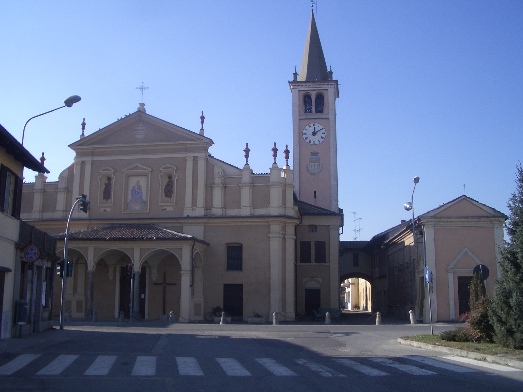 St. Bernardo parish church, Lamporo, Vercelli, Italy